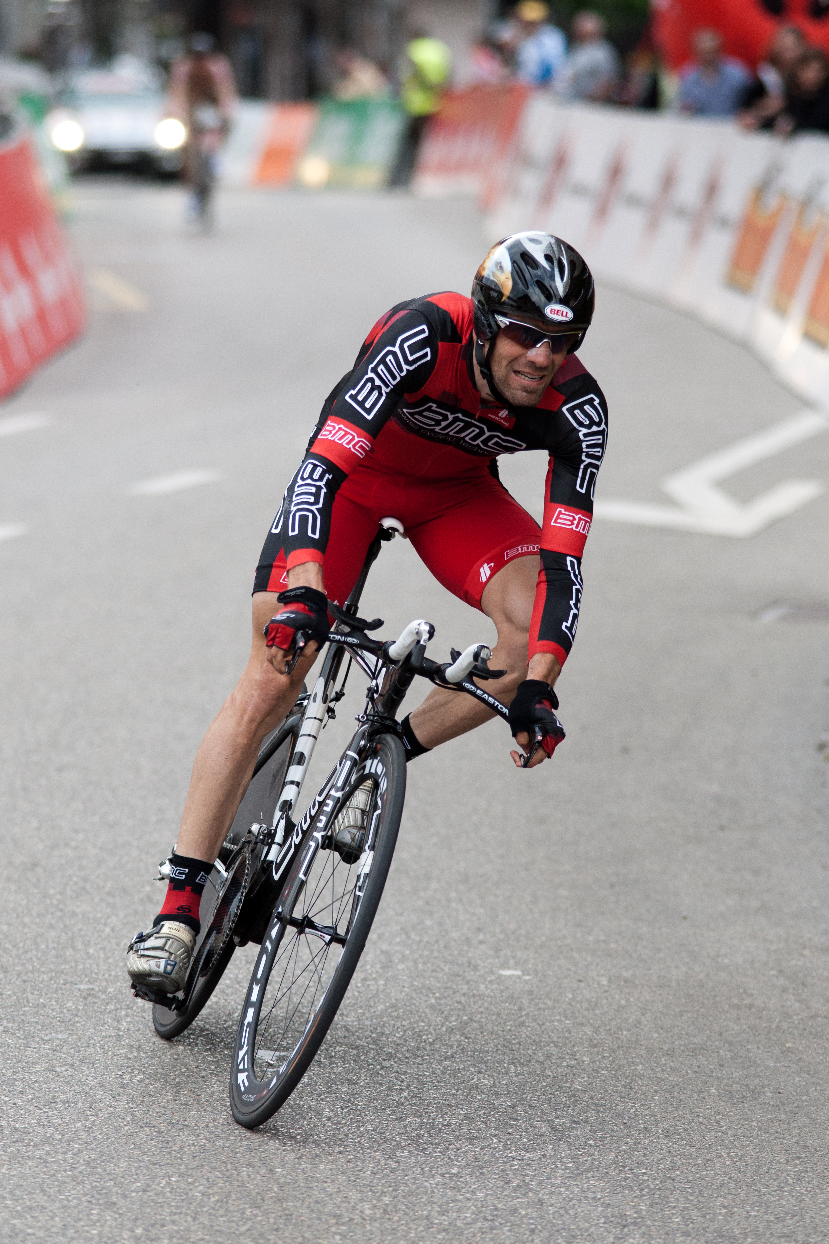 Alexandre Moos during the 3rs stage of the Tour de Romandie 2010.